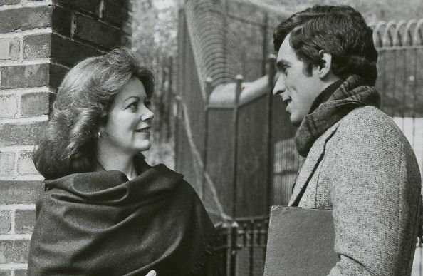 Photo of Kathleen Noone and Mark LaMura in the television series All My Children.